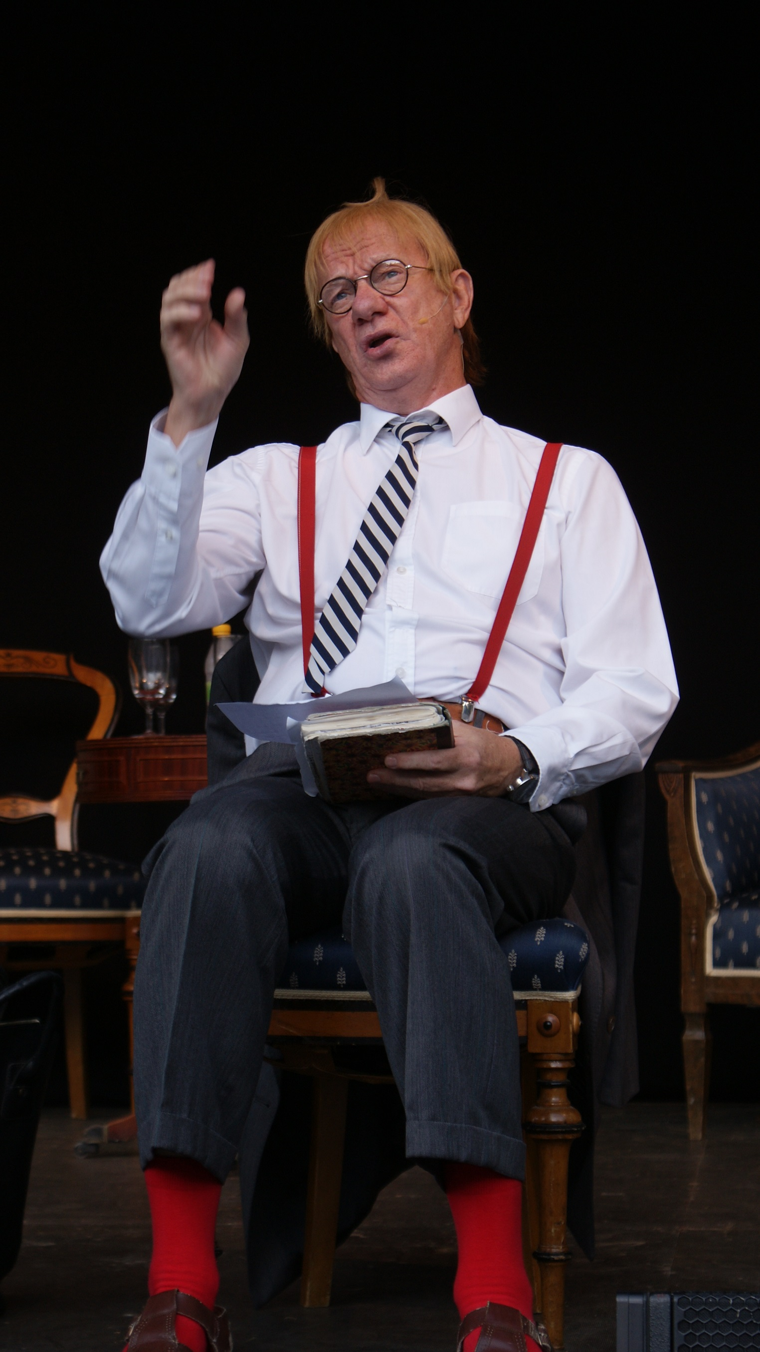 Peter Flack as Hjalmar. Photo taken by A-B N.